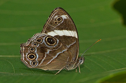 By Dhaval Momaya. Shot in Arunachal Pradesh, August 2006.